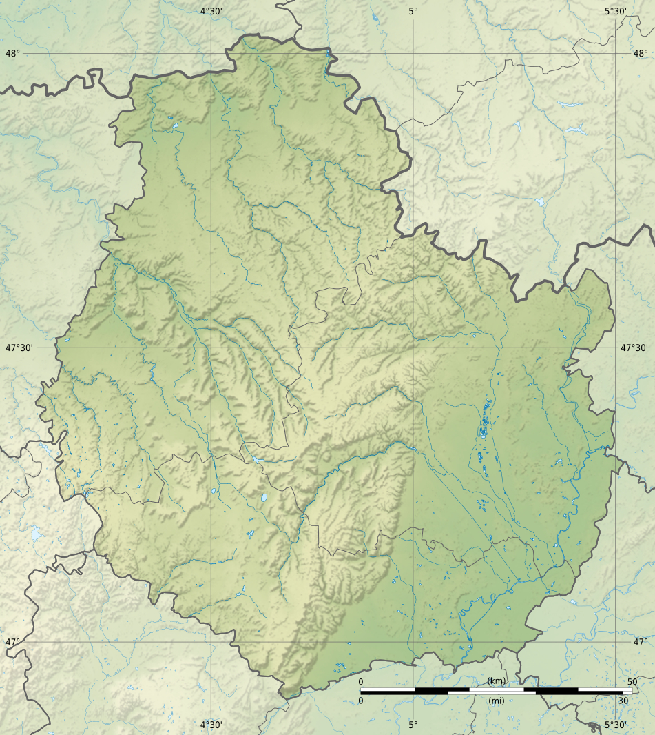 Blank physical map of the department of Côte-d'Or, France, for geo-location purpose.